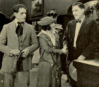 Still from the American film The Challenge of Chance (1919) with Harry von Meter, Arline Pretty, and Jess Willard, from an ad in the insert after page 1902 of the June 28, 1919 Moving Picture World.